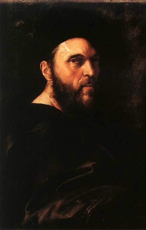 Detail of Ritratto di Andrea Navagero e Agostino Beazzano